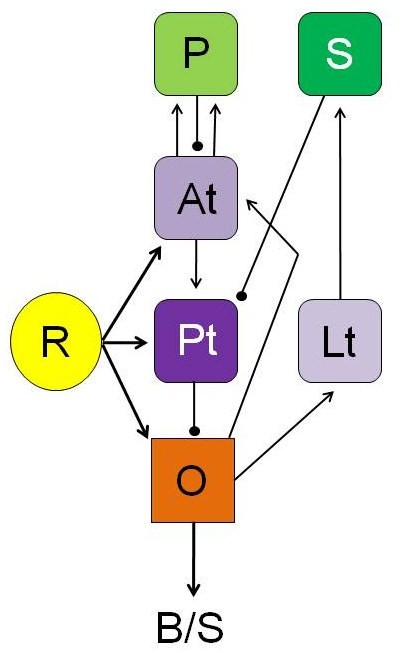 Visually released prey-catching in common toads: Various brain structures are involved in visual processes, such as feature discrimination (R, Pt, O), learning (P, At, Pt, O), and attention (S, Pt, Lt, O). The underlying neural network is suggested from experiments applying single neuron recording, focal brain stimulation, 14C-2-deoxiglucose labeling, lesioning, and anatomical pathway tracing. - R, retina (contralateral eye); O, optic tectum; Pt, pretectal thalamus; Lt, lateral anterior thalamic nucleus; At, anterior thalamus; P, posterior ventromedial pallium; S, caudal ventral striatum; B/S, bulbar/spinal pre-motor/motor nuclei; arrows: excitatory input; lines with dots: inhibitory influences. After Ewert and Schwippert 2006